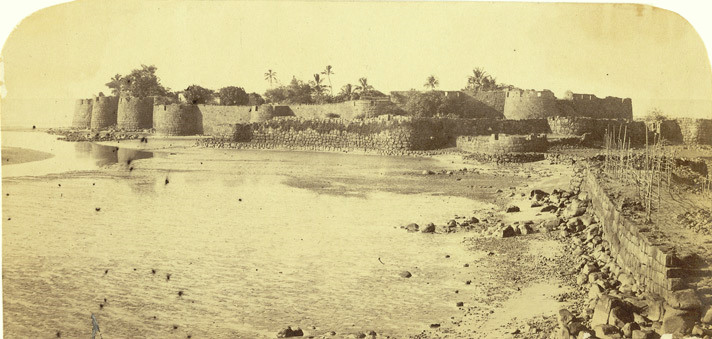 Colaba Fort or Kolaba Fort, Alibag, 35 km south of Mumbai. 1855 photograph. It is nine hundred feet long and three hundred and fifty feet wide and built by Shivaji Maharaj in 1680.